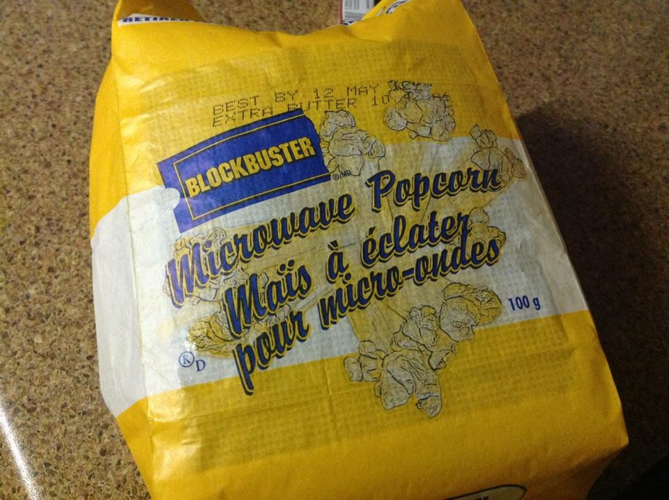 Blockbuster Microwave Popcorn